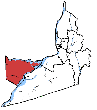 Map of Vaudreuil—Soulanges, Quebec